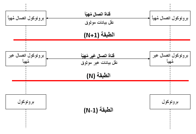 Communication channel modes in a layered network model.